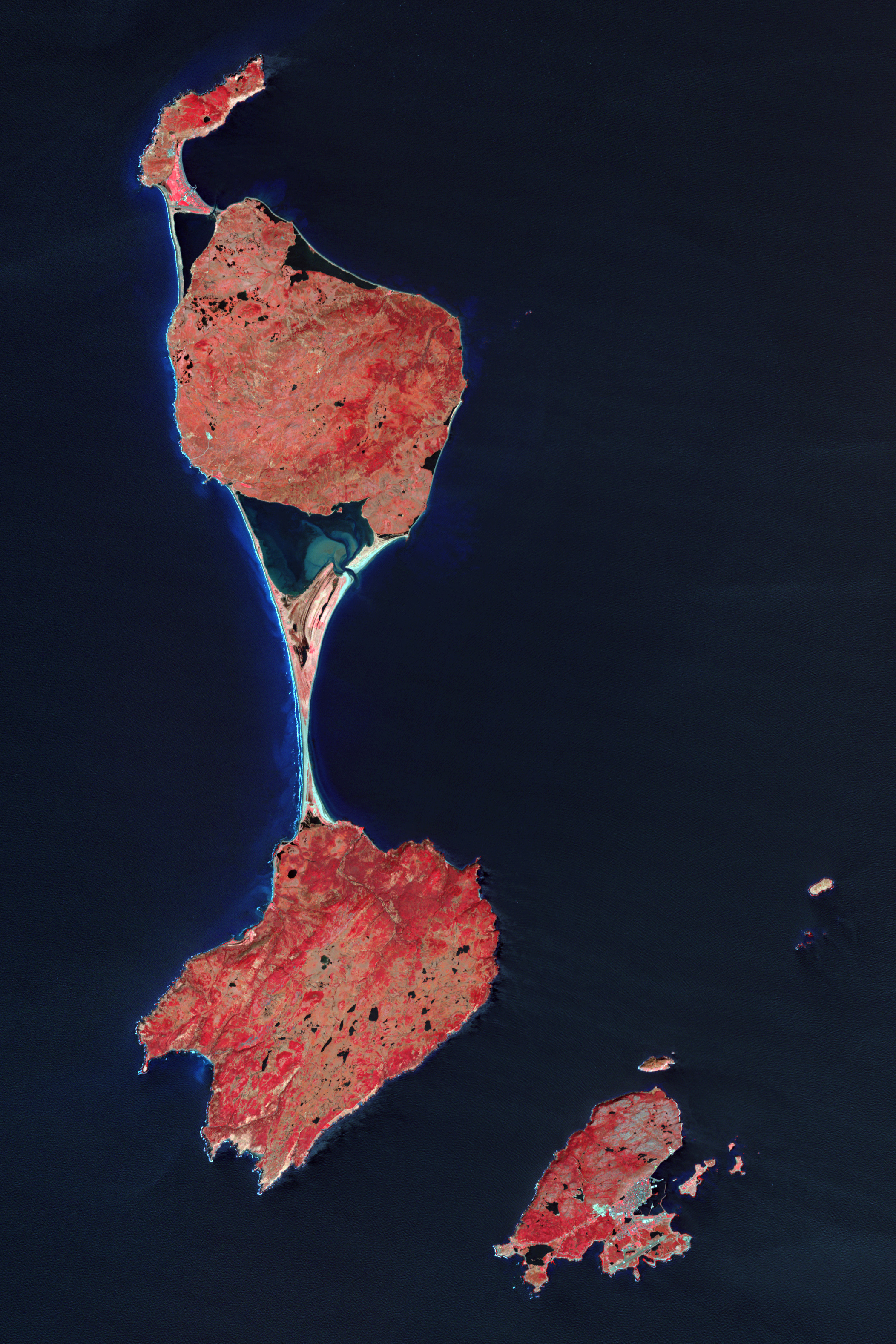 In this false-colour image of the Saint Pierre and Miquelon archipelago, vegetation appears in varying shades of pink and red, bare land is beige, urbanized areas are blue-gray, and water appears in shades of blue and blue-green. Saint Pierre is the smallest of the archipelago’s major islands, a mostly north-east south-west running landmass with several smaller islands and islets scattered around it. In the west (left of the image), Miquelon consists of three main sections: an arc-shaped body in the north (top left), Grande Miquelon immediately south-east of that, and Langlade (or Petite Miquelon) Island in the south. Grande Miquelon and Langlade are connected by a tombolo, a ridge of beach material (typically sand), built by wave action, that connects an island to the mainland. This tombolo formed in the eighteenth century.